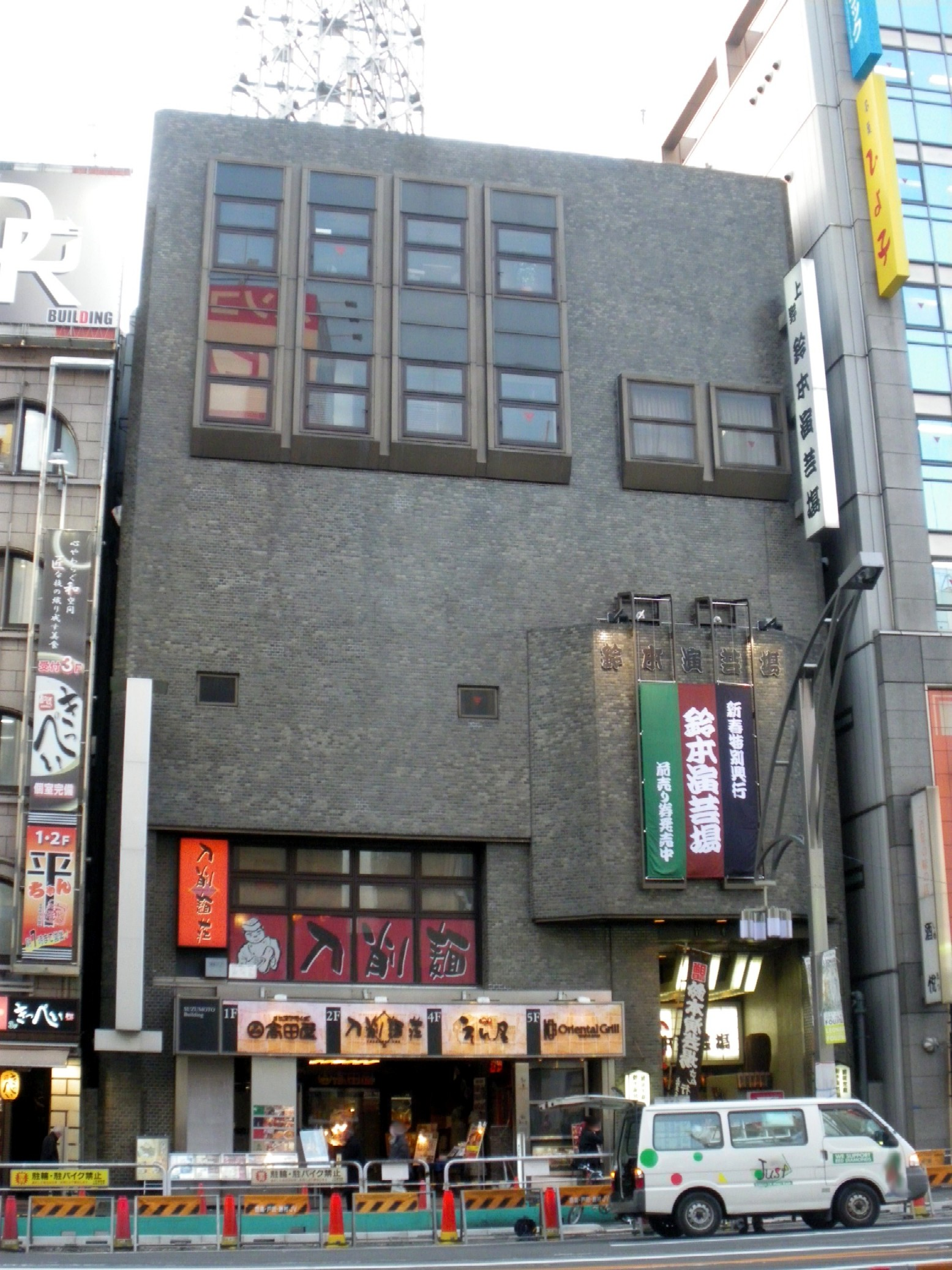 A photo of Suzumoto Engeijo, a famous vaudeville theater in Ueno,Taito-ku,Japan.